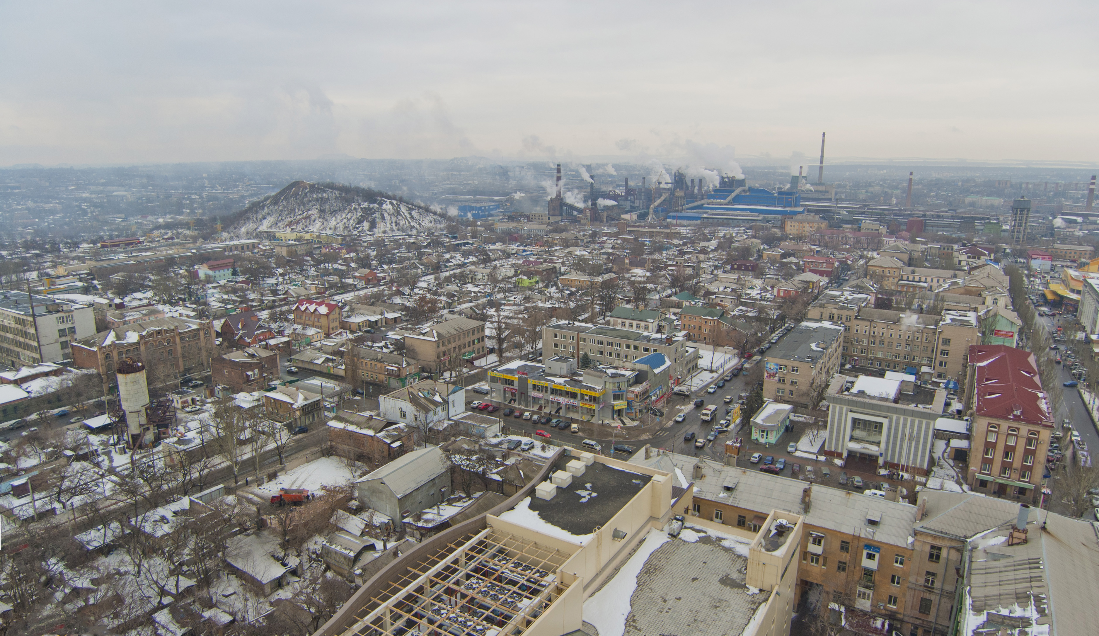 Industrial city Donetsk